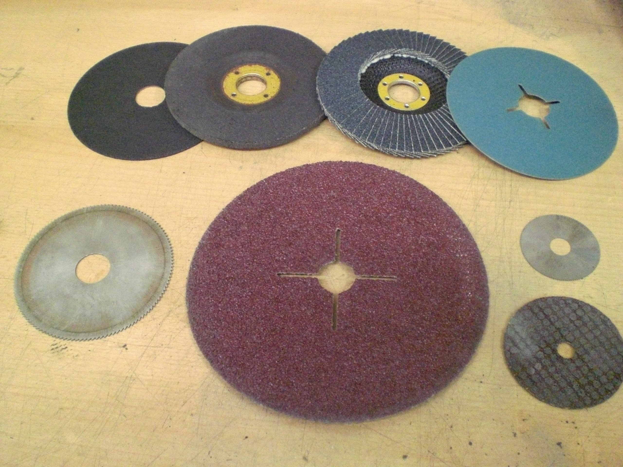 discs for angle grinder